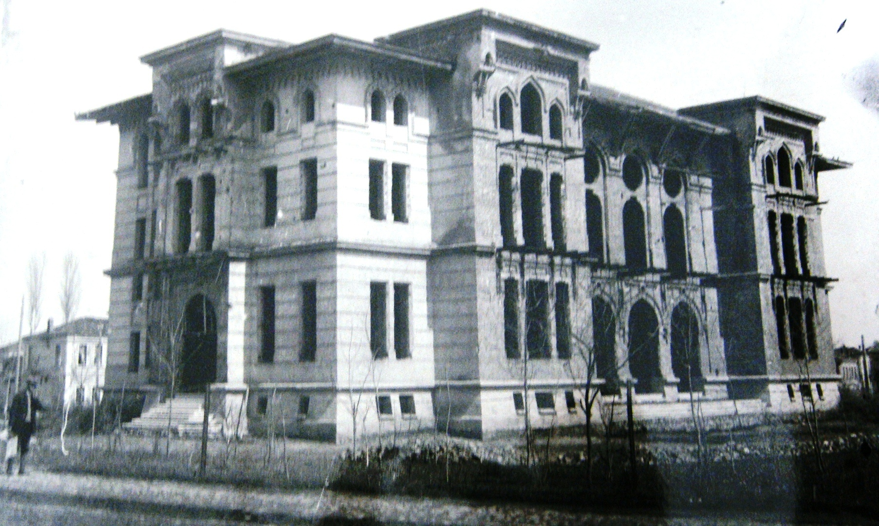 The building of the Officer's Hall. Bitola, 1912 This media file is produced by Wikipedian in Residence in Category:Wikipedian in Residence at DARM in 2016.